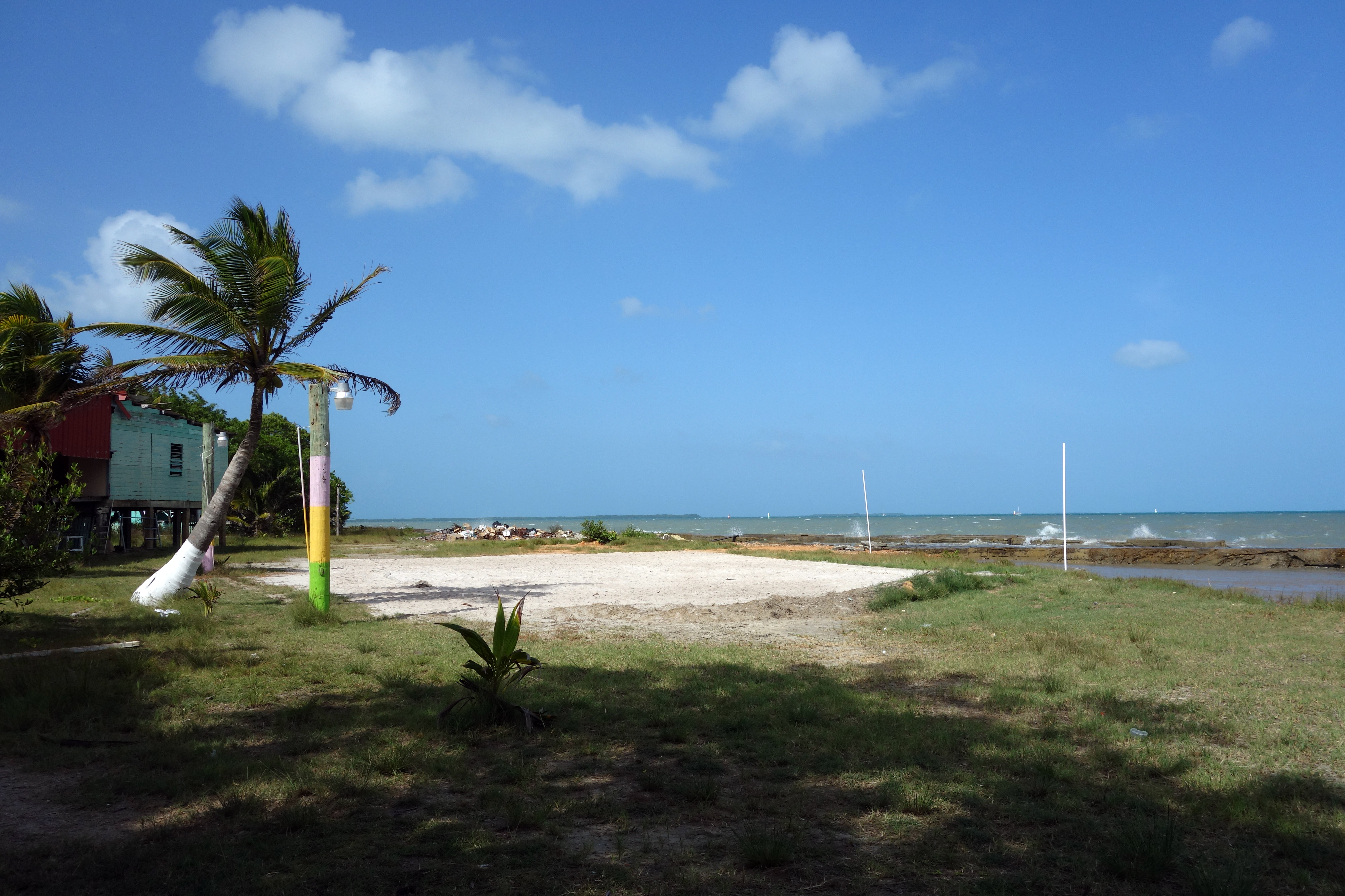 Bird's Isle in Belize City